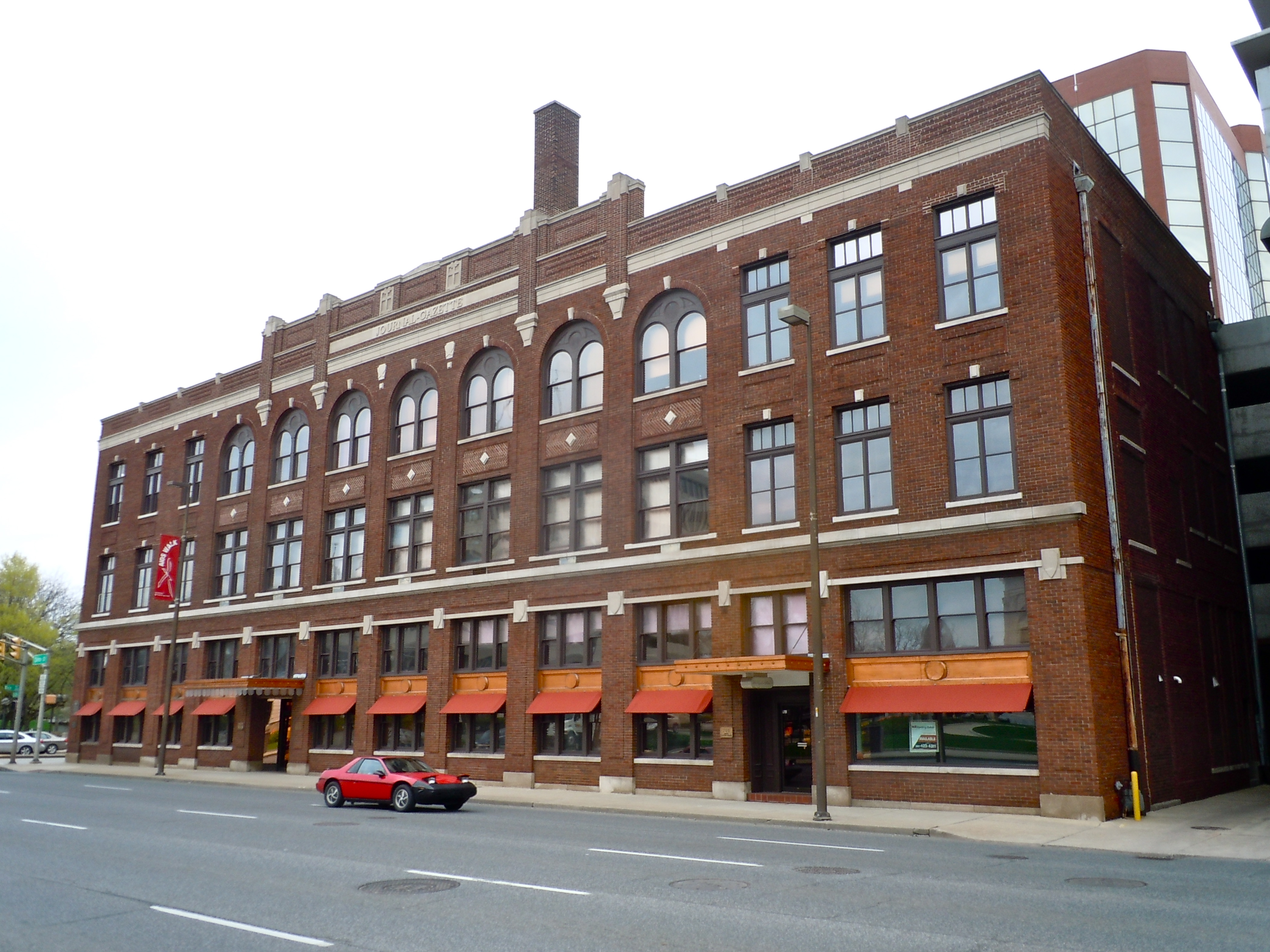 Journal-Gazette Building on the NRHP since December 27, 1982. At 701 S. Clinton St., across from the Allen County Courthouse, Fort Wayne, Indiana